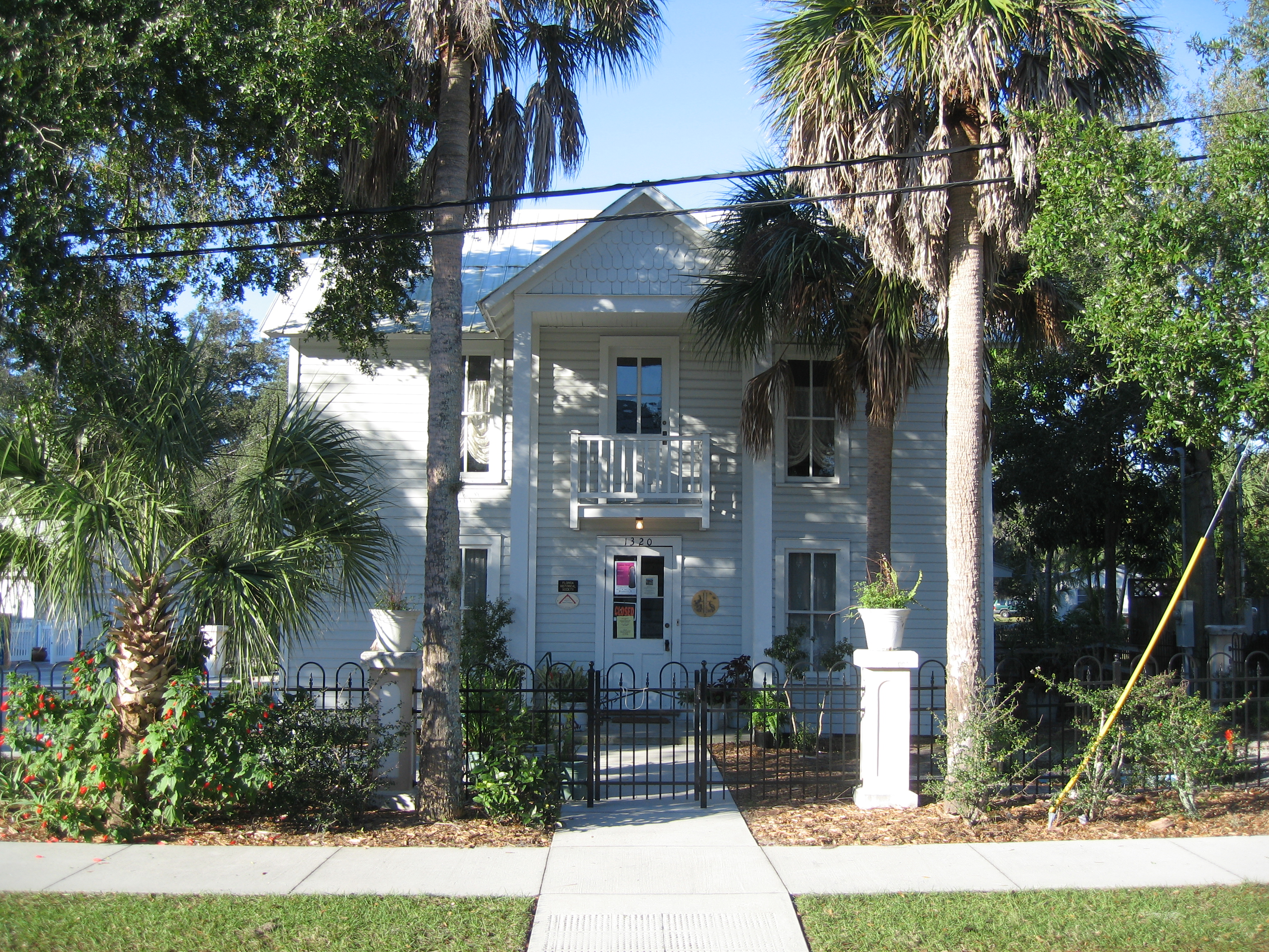 Front view of the Roesch House (c.1901), 1320 Highland Avenue, Eau Gallie, Florida.